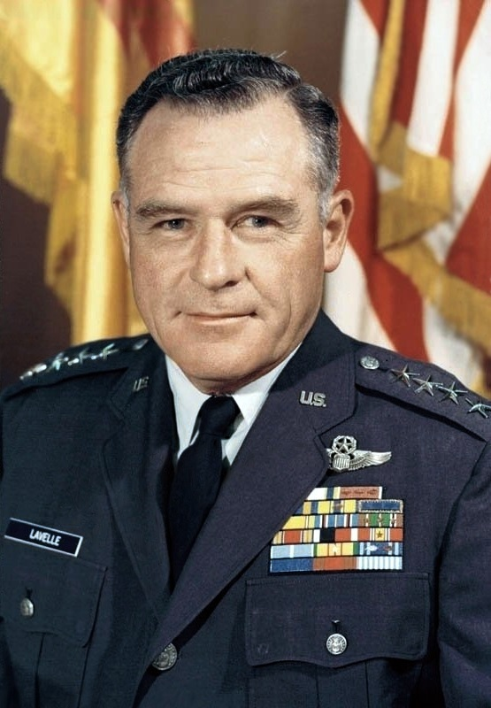 Official portrait of USAF General John D. Lavelle.